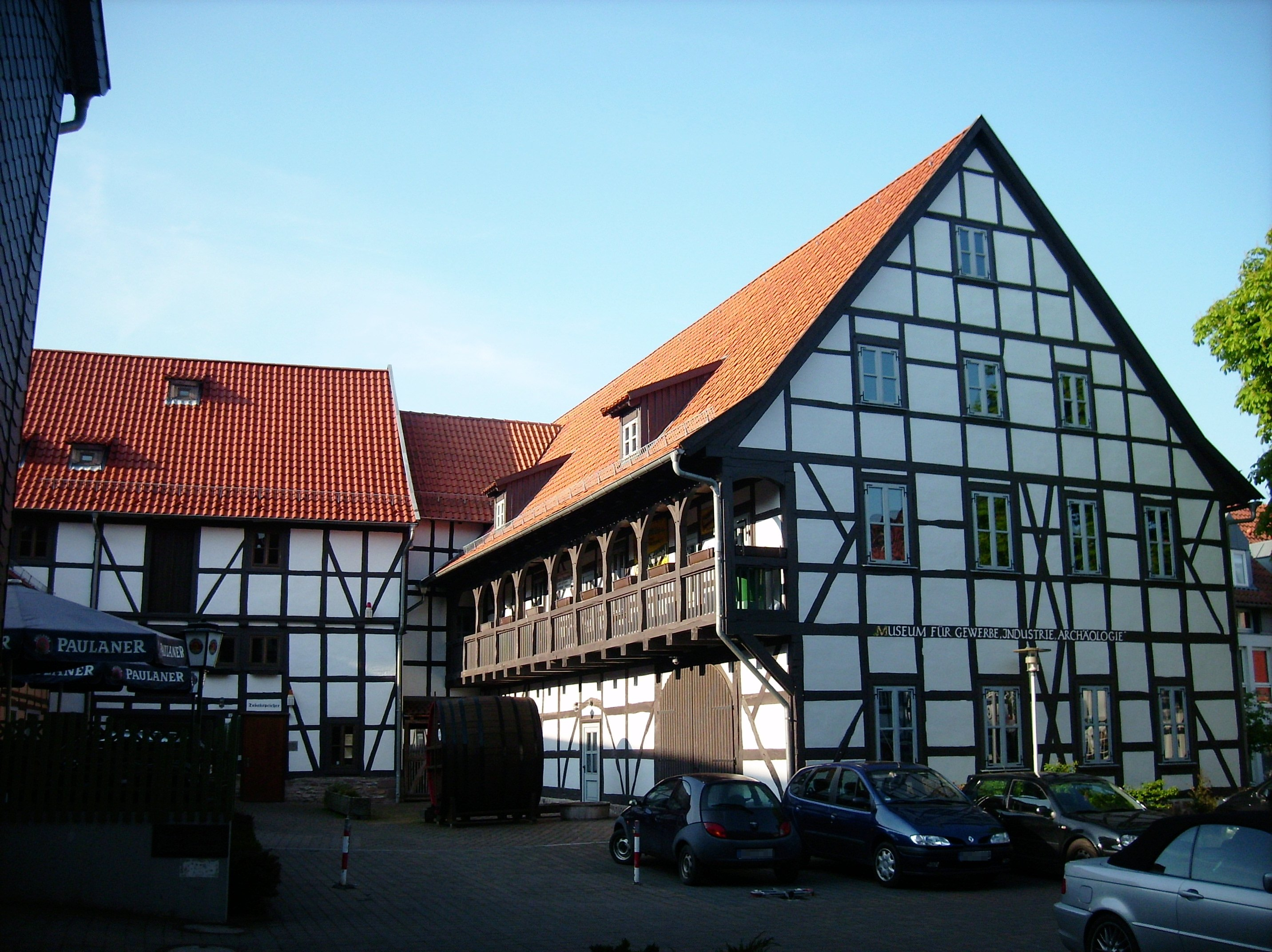 Museum Tobacco Storehouse at Bäckerstrasse 20 in Nordhausen (Thuringia)